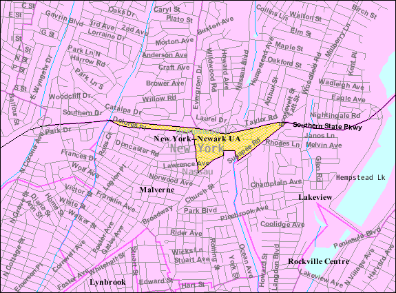 U.S. Census 2000 reference map for Malverne, New York